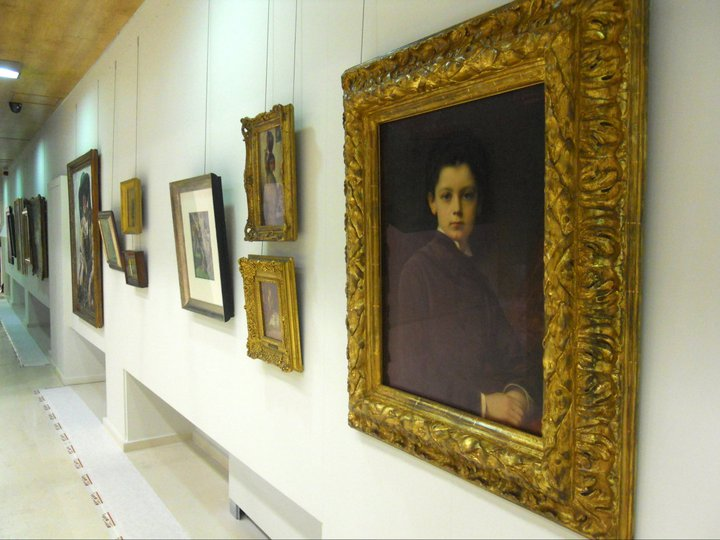 Gallery 01